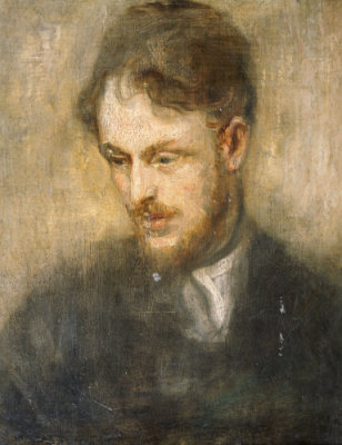 Portrait of Augustus John (1878-1961)